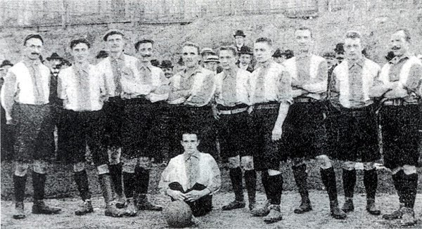 Berliner TuFC Union 92, German Football Champions 1904-05